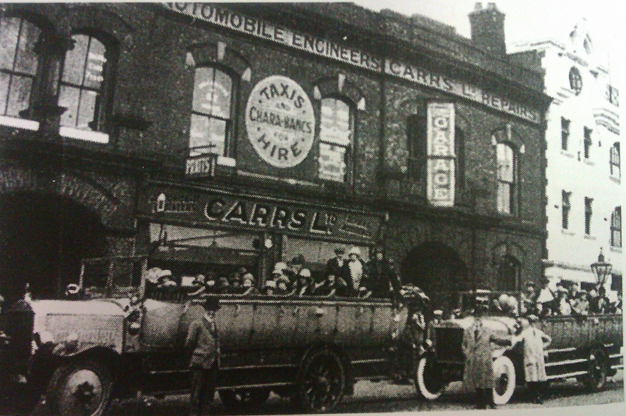 Charabancs picking up passengers for a wakes week trip in Bury, Greater Manchester around 1920